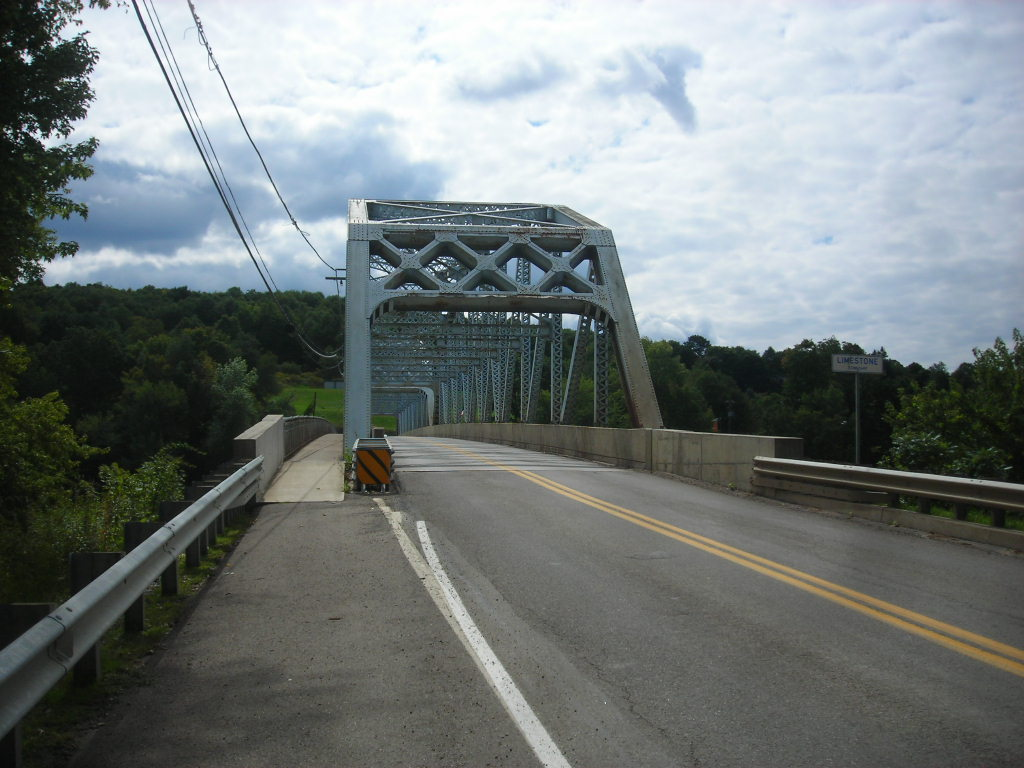 Pennsylvania State Route 127